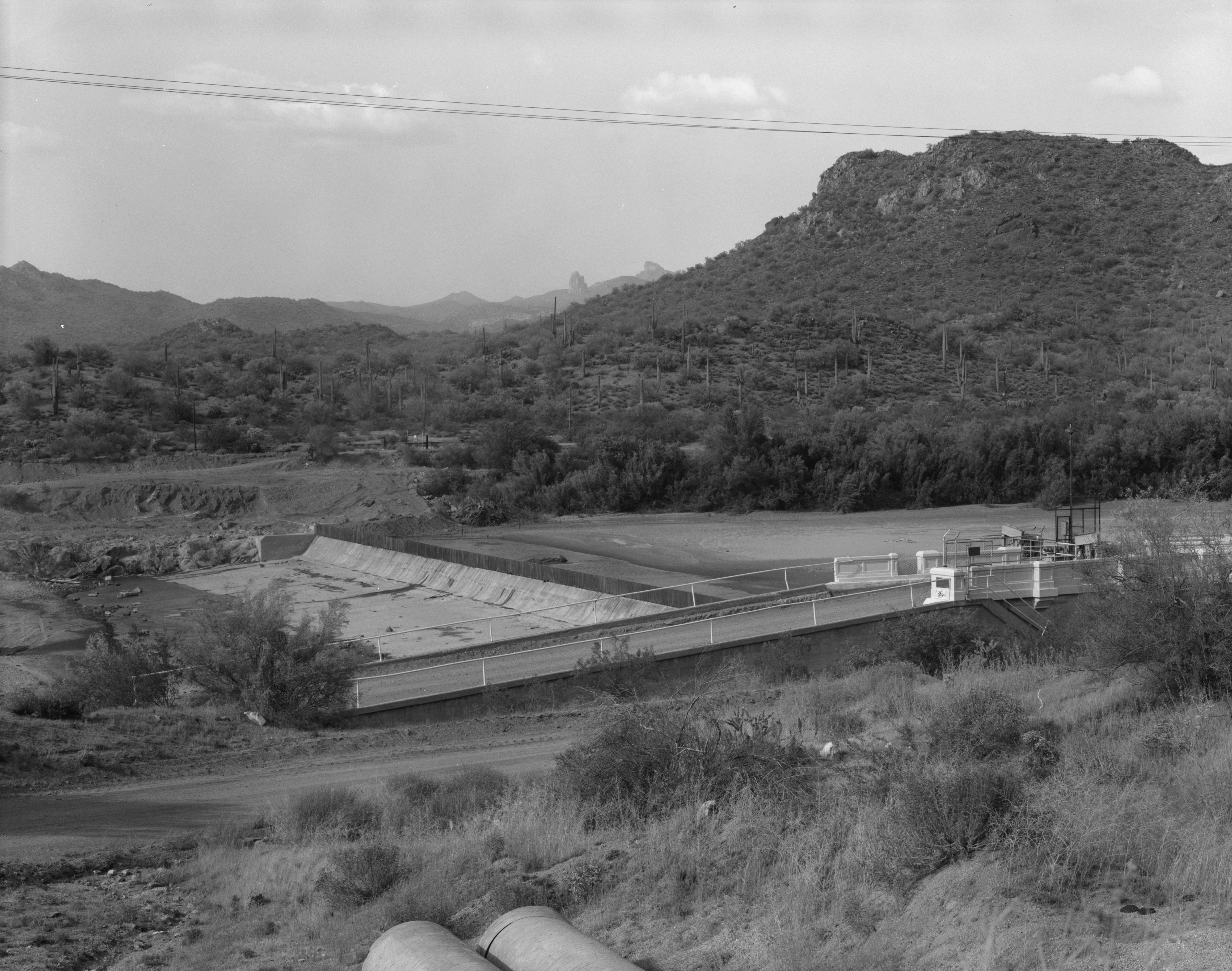 Ashurst-Hayden Dam - A diversion dam located on the Gila River northeast of Florence, Arizona (33° 6' 1.01"N, 111° 14' 46.00"W)